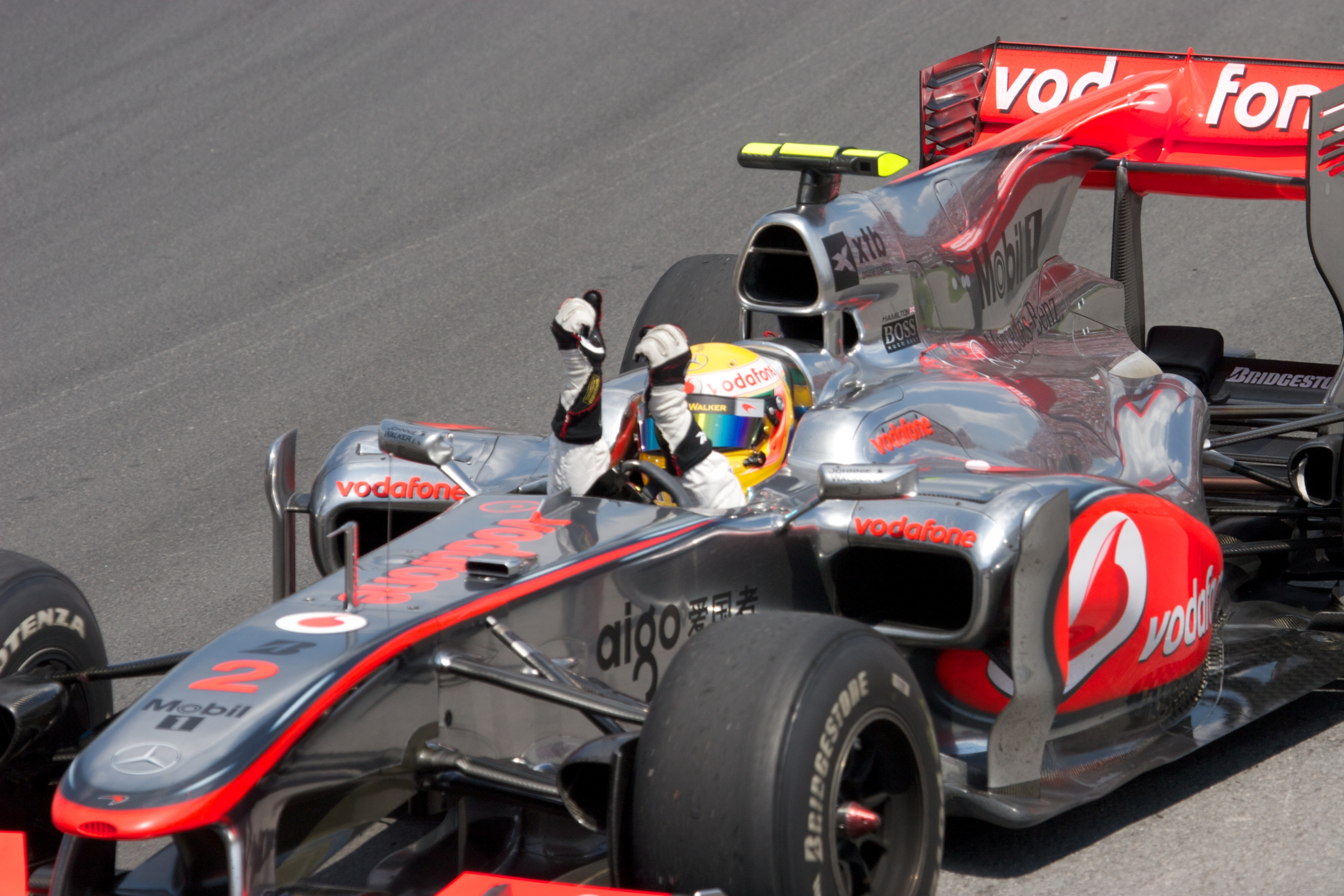 Formula One 2010 Rd.8 Canadian GP: Lewis Hamilton (McLaren) won the race.